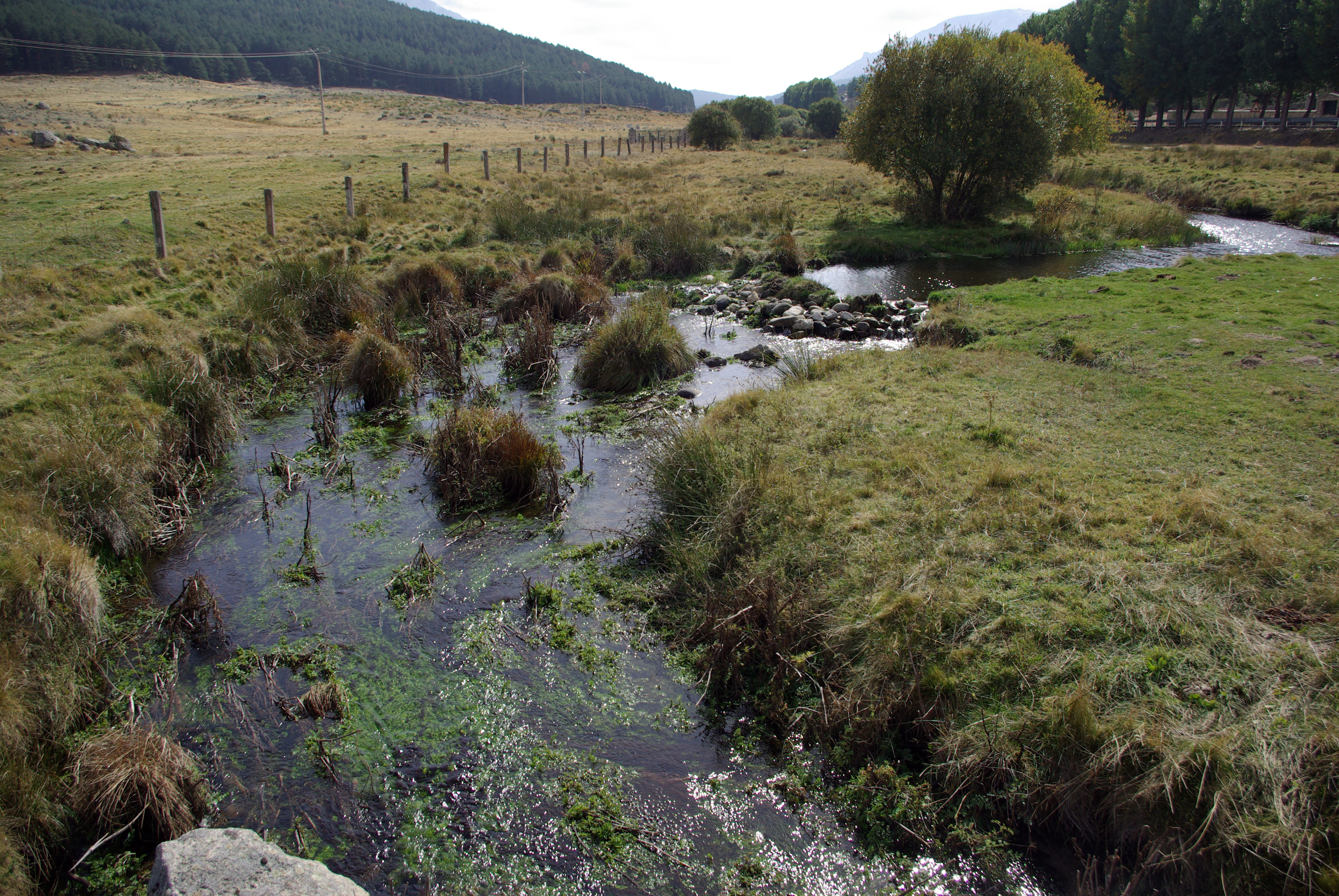 River Piquillo at San Martín del Pimpollar (Ávila, Spain)